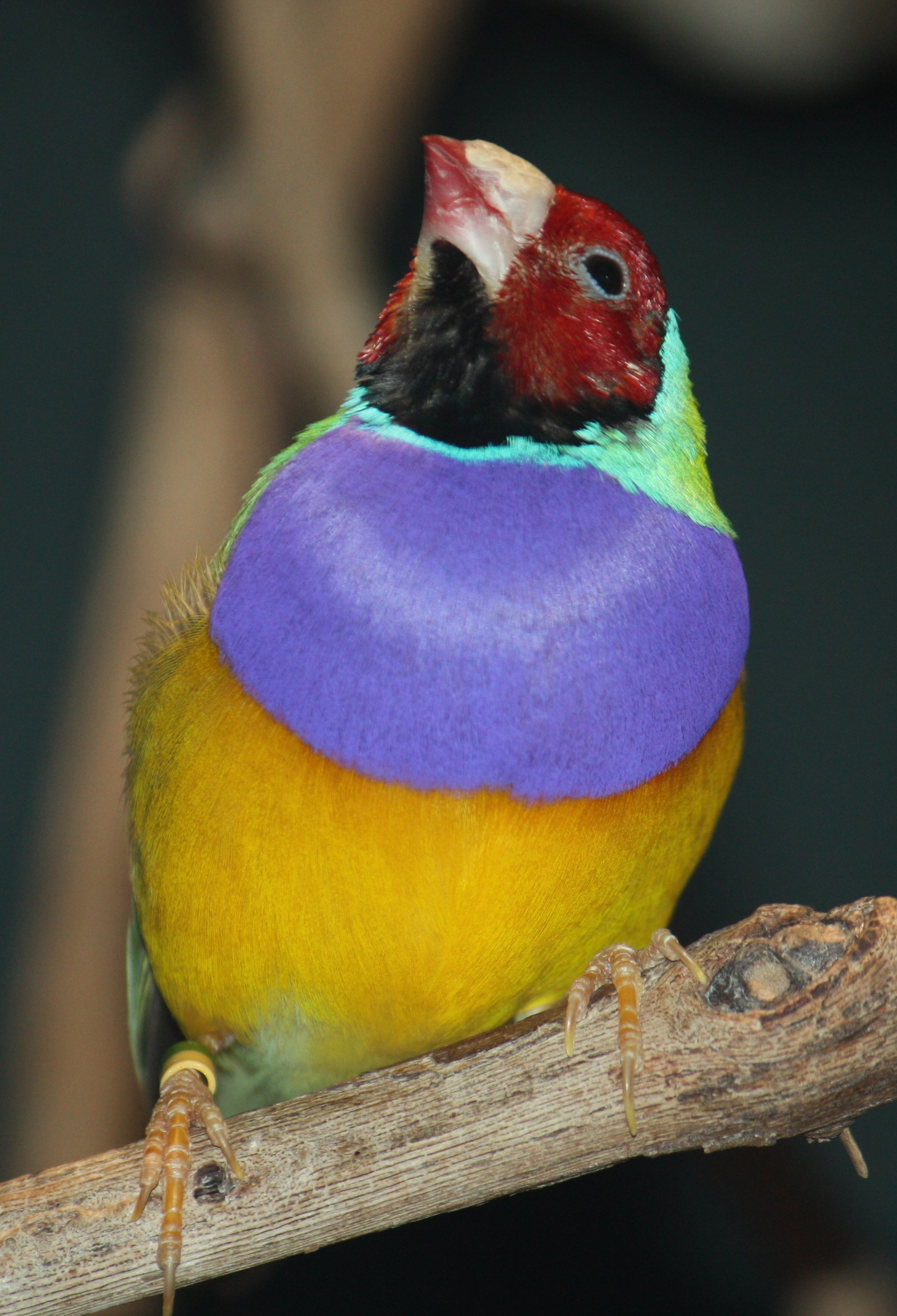 Gouldian Finch Chloebia gouldiae at Cincinnati Zoo